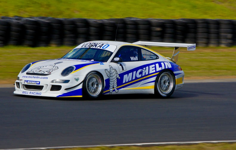 David Wall in the Michelin sponsored Porsche 911 GT3 Cup Type 997 contesting Round 3 of the 2011 Australian GT Championship at Eastern Creek Raceway.